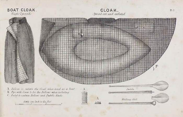 Diagram showing the Halkett Boat Cloak configured as a cloak and as a boat